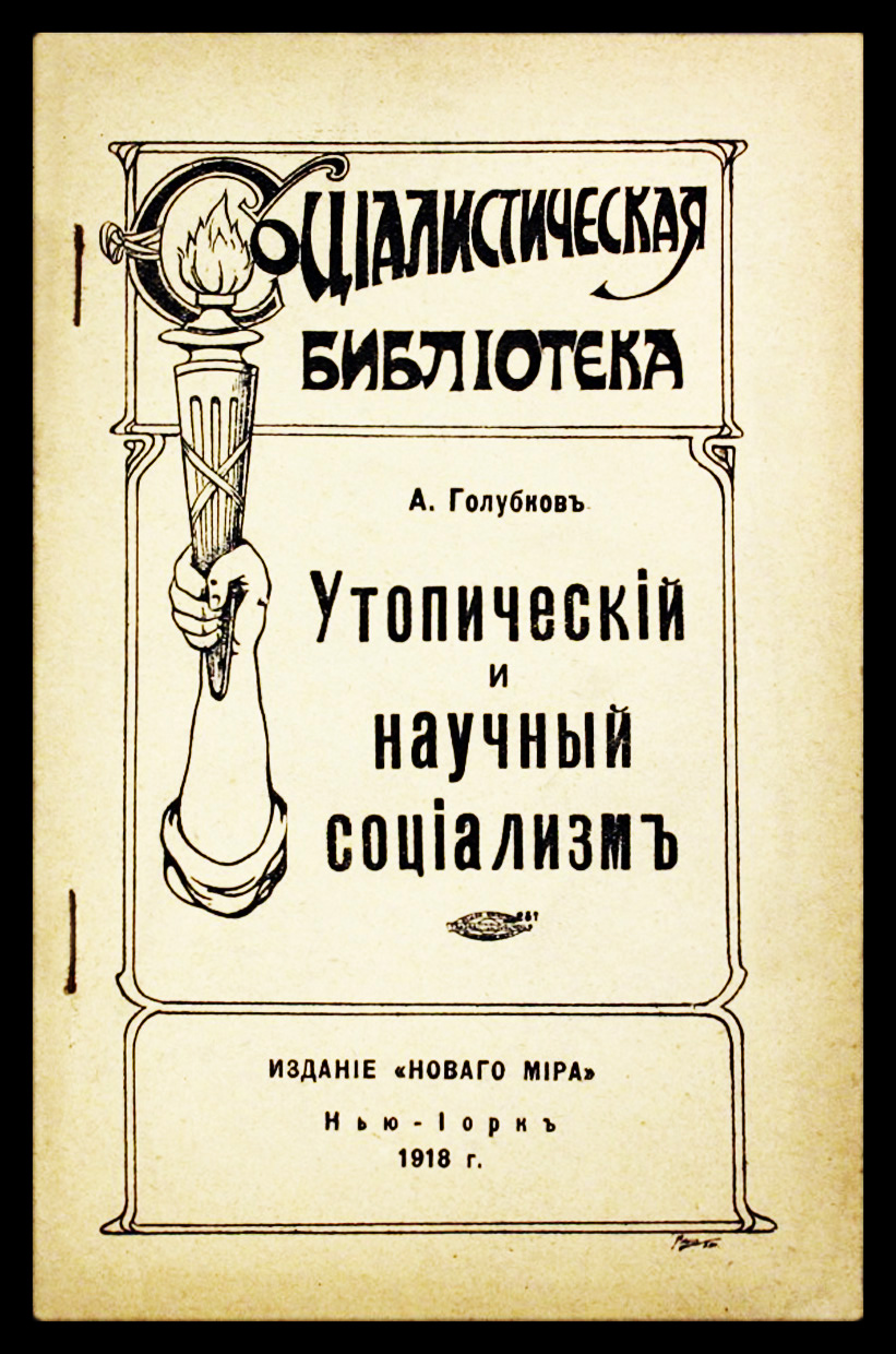 Cover of the pamphlet Utopicheskii i nauchnyi sotsializm" (Utopian and Scientific Socialism) by A. Golubkov.